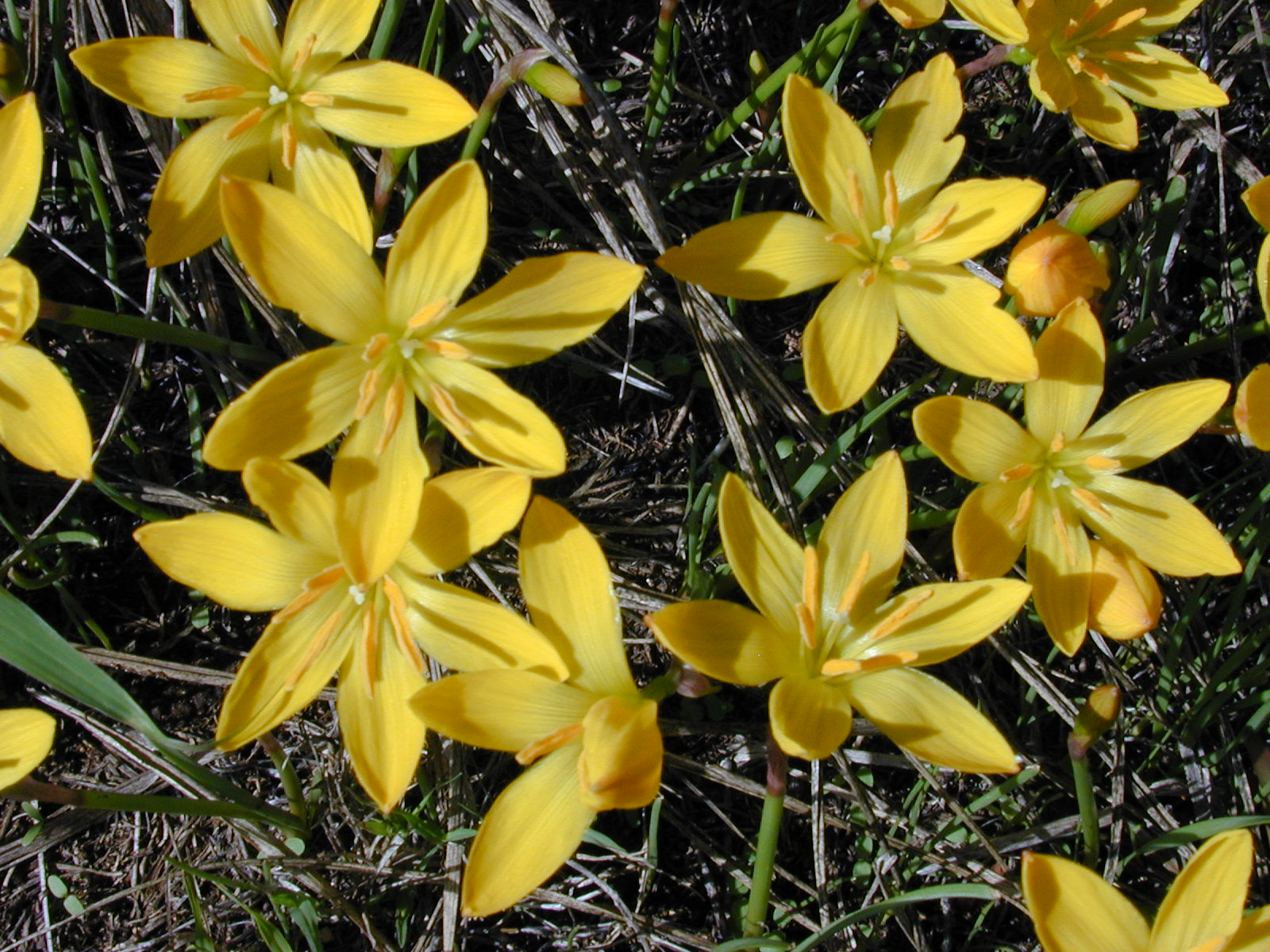 Zephyranthes citrina (flowers). Location: Maui, Paia